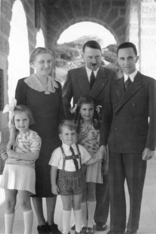 Obersalzberg, the family Goebbels visit Adolf Hitler, "Der Führer" is back in Obersalzberg. At a visit in a cozy hour with his guests, the minister Doctor Goebbels and wife with their children Helga, Hilde and Helmut.